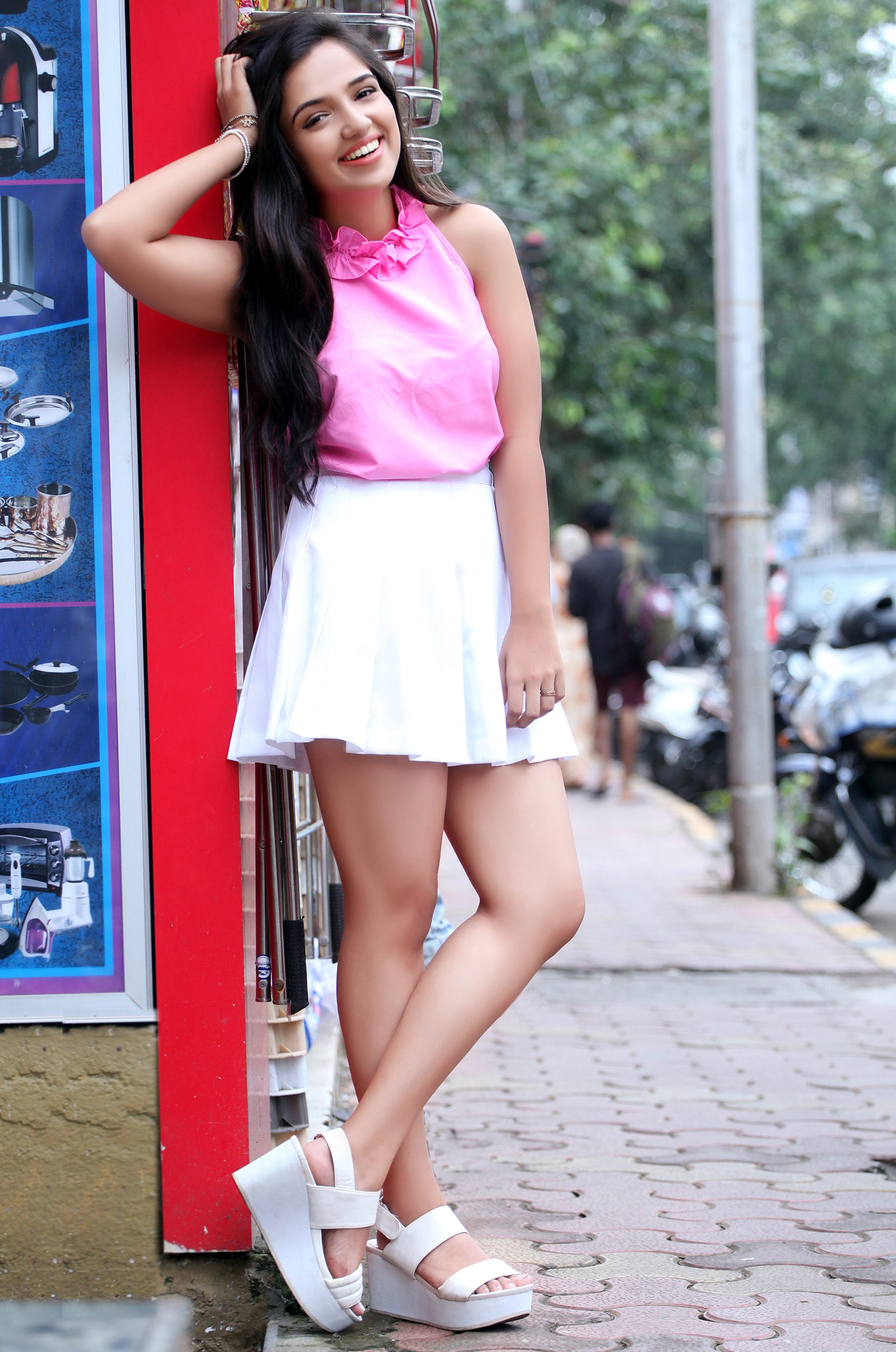 Actress Ahsaas Channa during an advertisement shot in Mumbai.